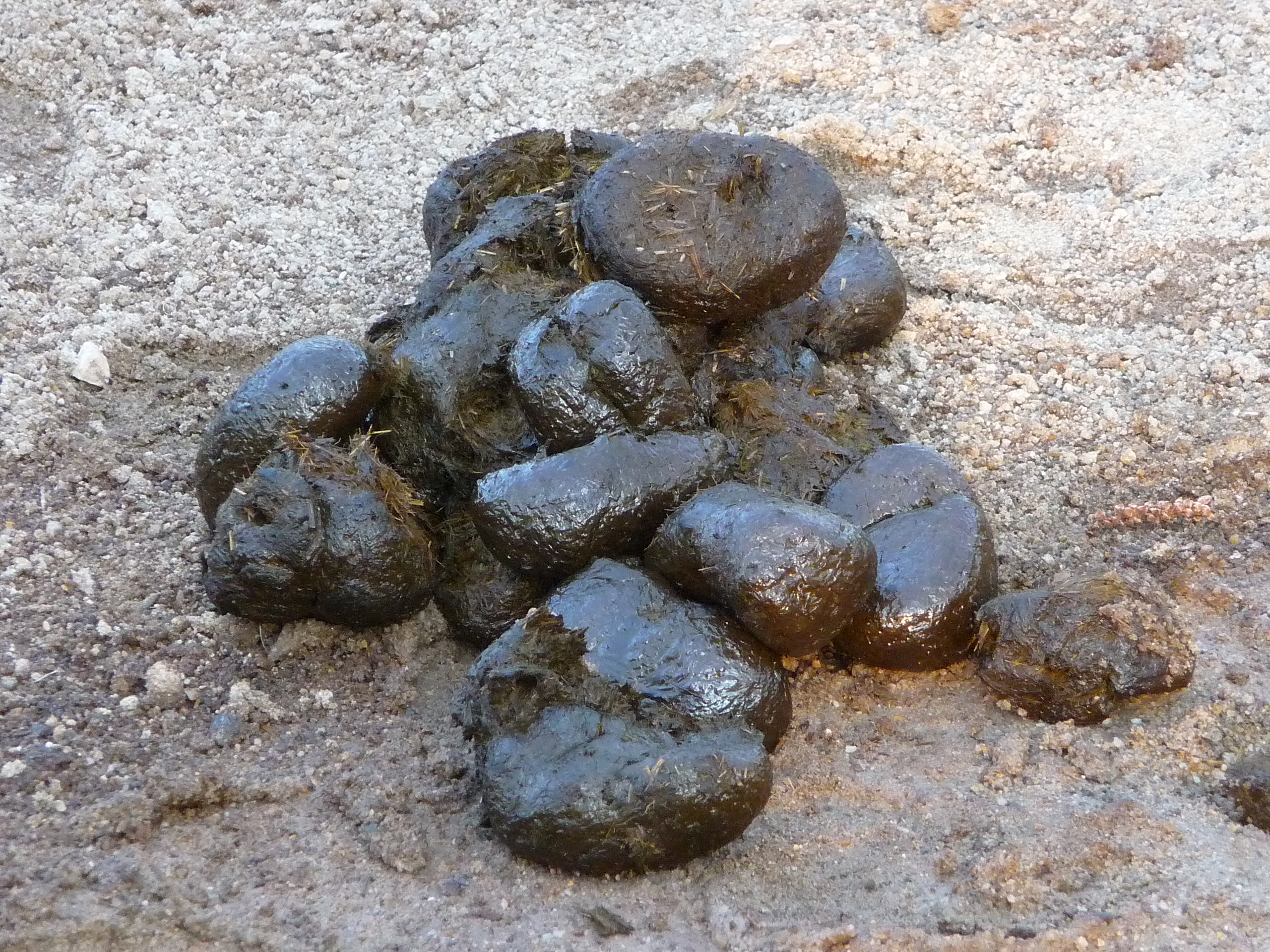 Excrement of a Poitou donkey